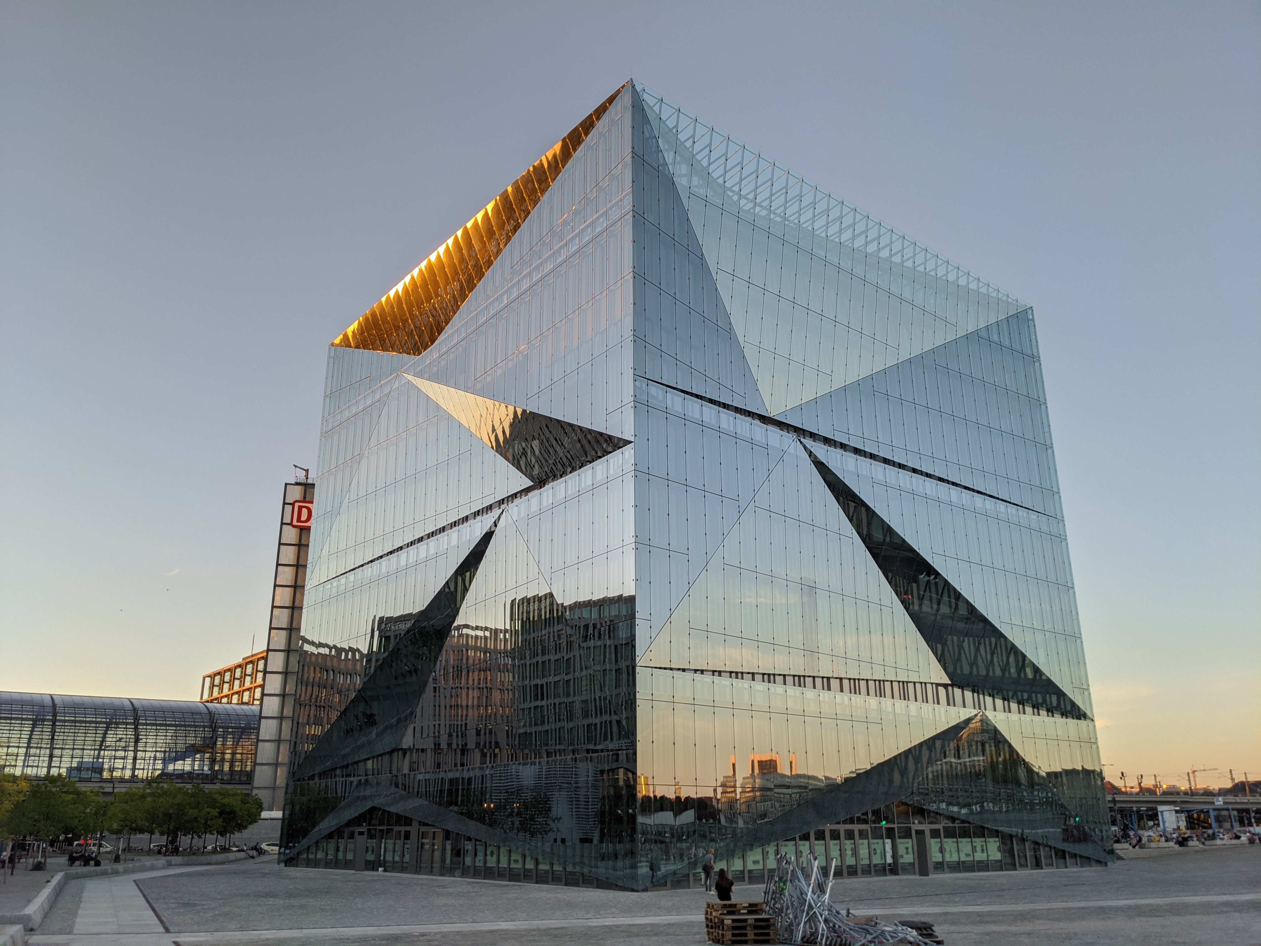 square